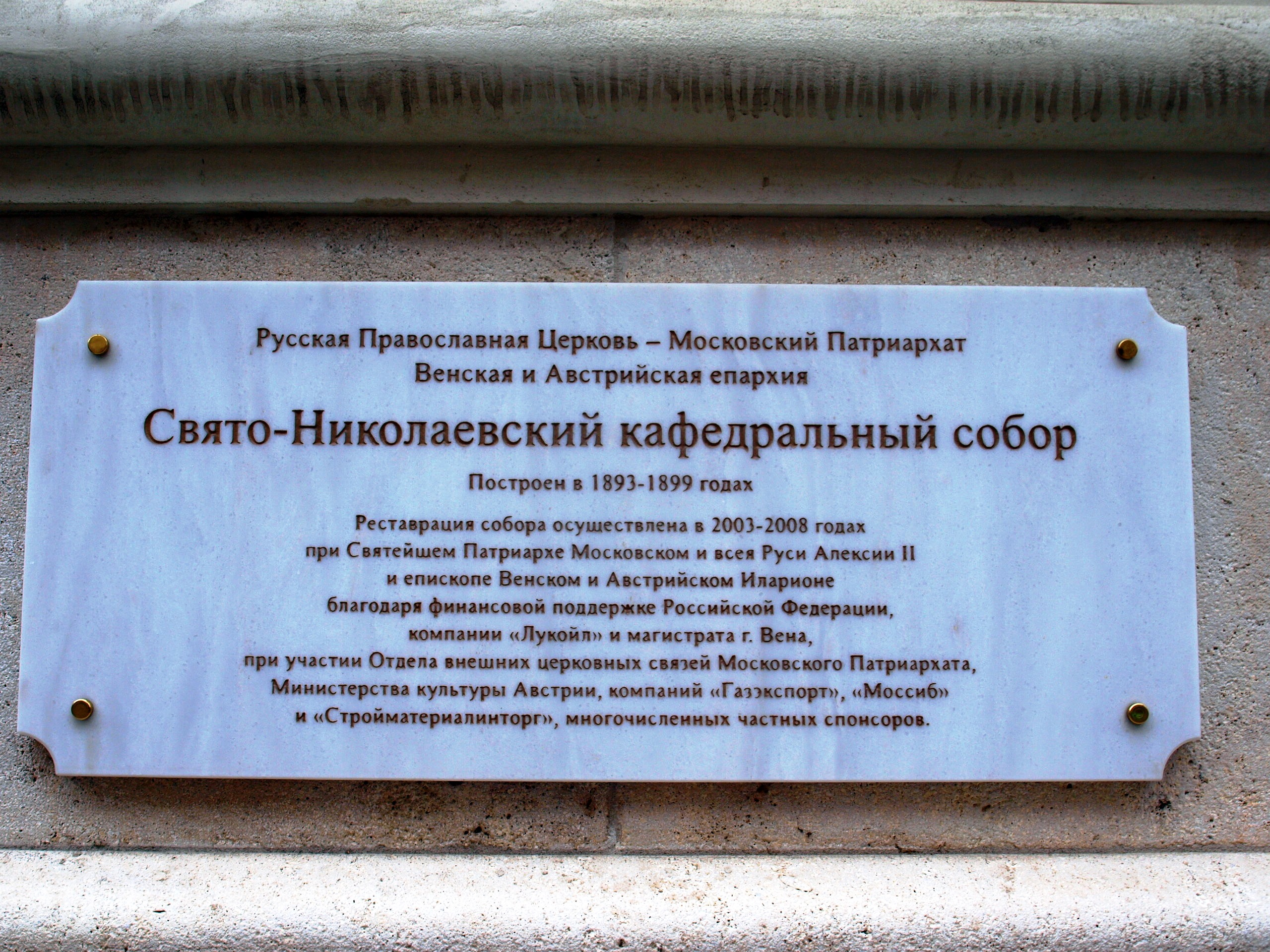 Vídeň - pravoslavný chrám sv. Mikuláše - deska